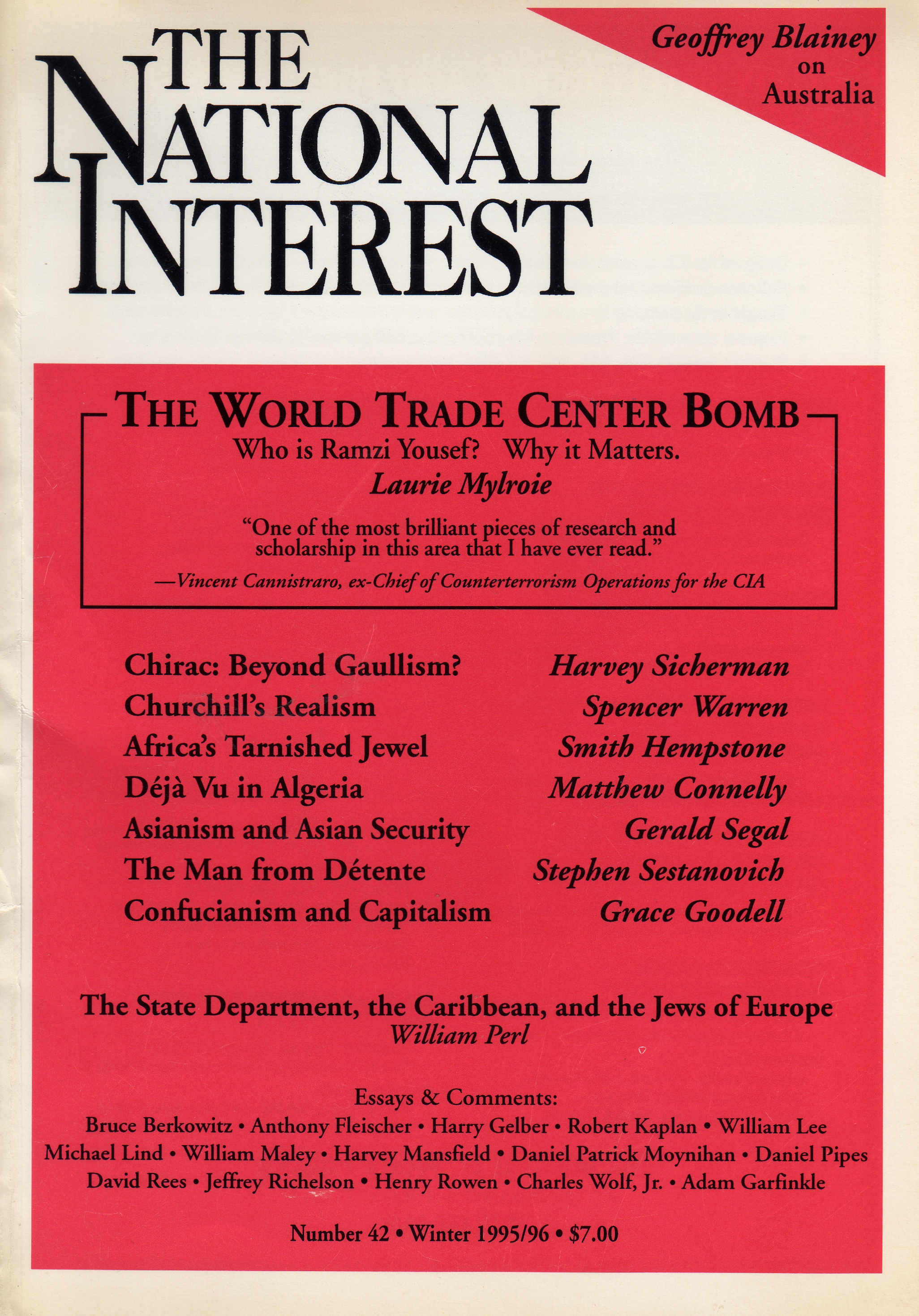 Cover of The National Interest, No. 42, Winter 1995/96.